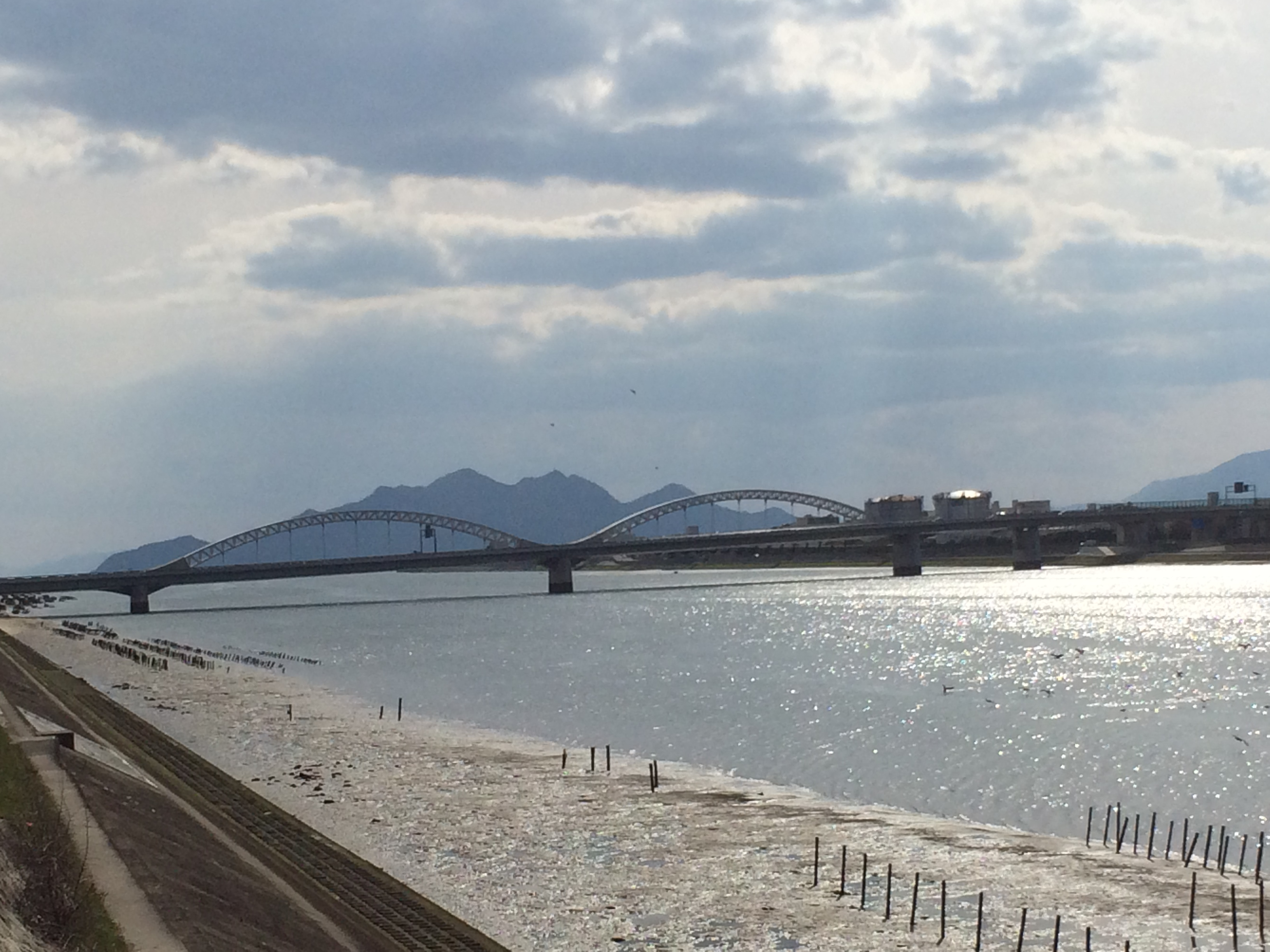 Ōta River Bridge taken from Kogo Bridge, which is located on upper reach of Ōta River channelŌta River